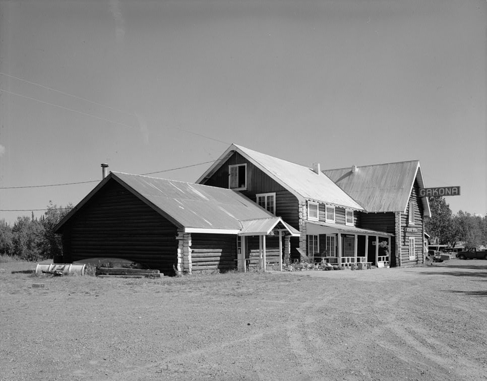 Side of the Gakona Roadhouse in Gakona, a community in the Valdez-Cordova Census Area of the U.S. state of Alaska. Built in 1905 and located along the Glenn Highway, the general store is listed on the National Register of Historic Places. As well, it is a part of the Gakona Historic District, which is also listed on the Register.